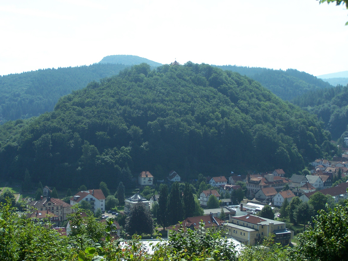 Thal, the Scharfenberg hill, from the viewpoint "Spitziger Stein".